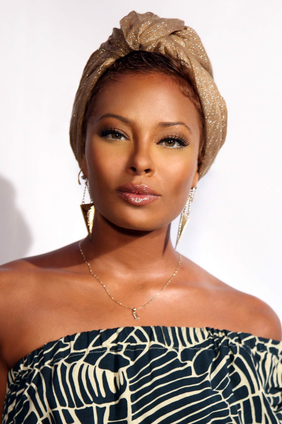 Eva Marcille, Los Angeles, CA on September 21, 2012 - Photo by Glenn Francis of